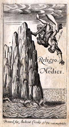 Frontispiece of the first pirated edition of Religio Medici.